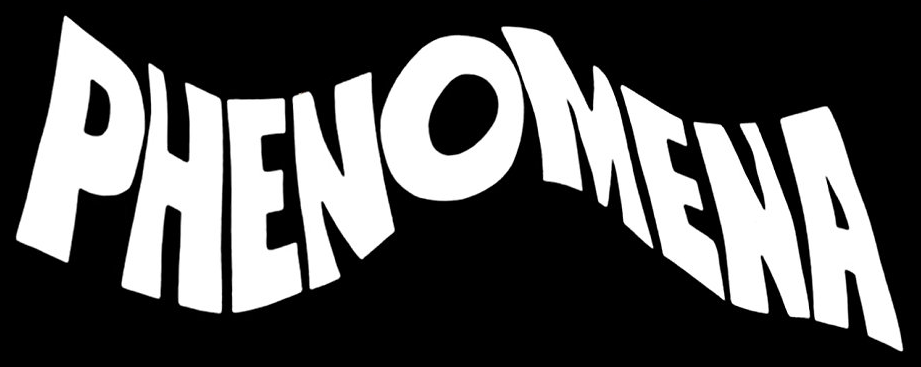 Official Logo of the italian Movie Creepers from 1985